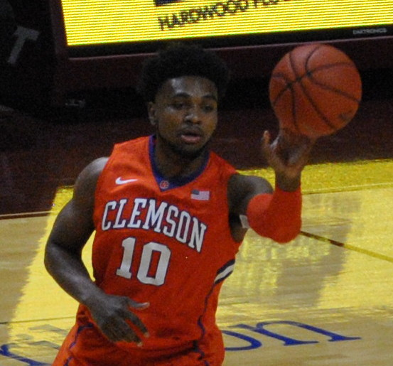 Gabe DeVoe passes the ball against the Hokies